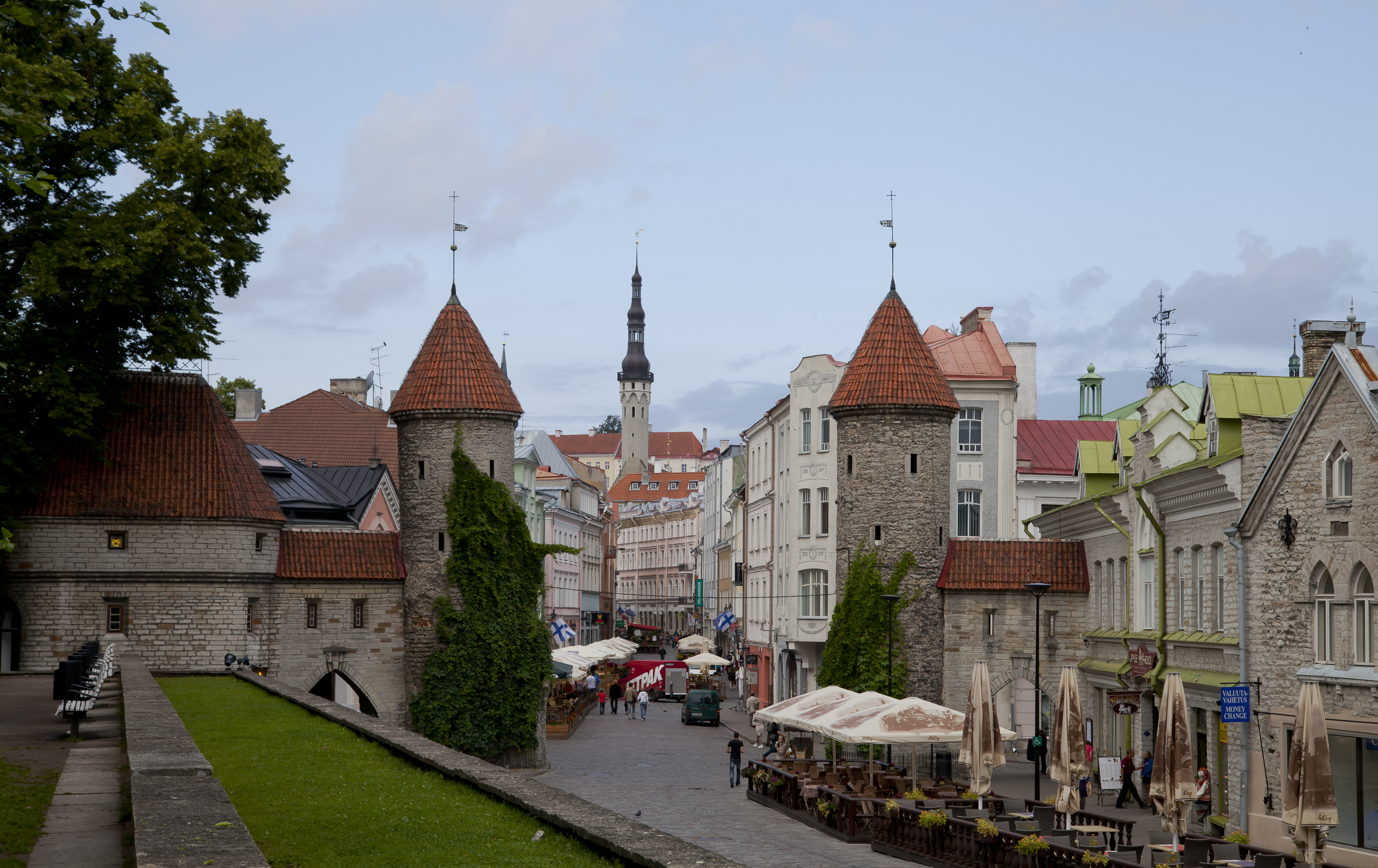 Viru Gate, Tallinn, Estonia